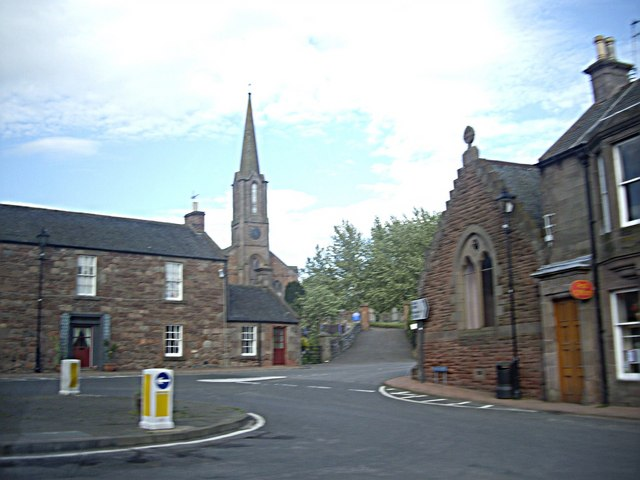 Fettercairn Square With the church and Post Office in view.